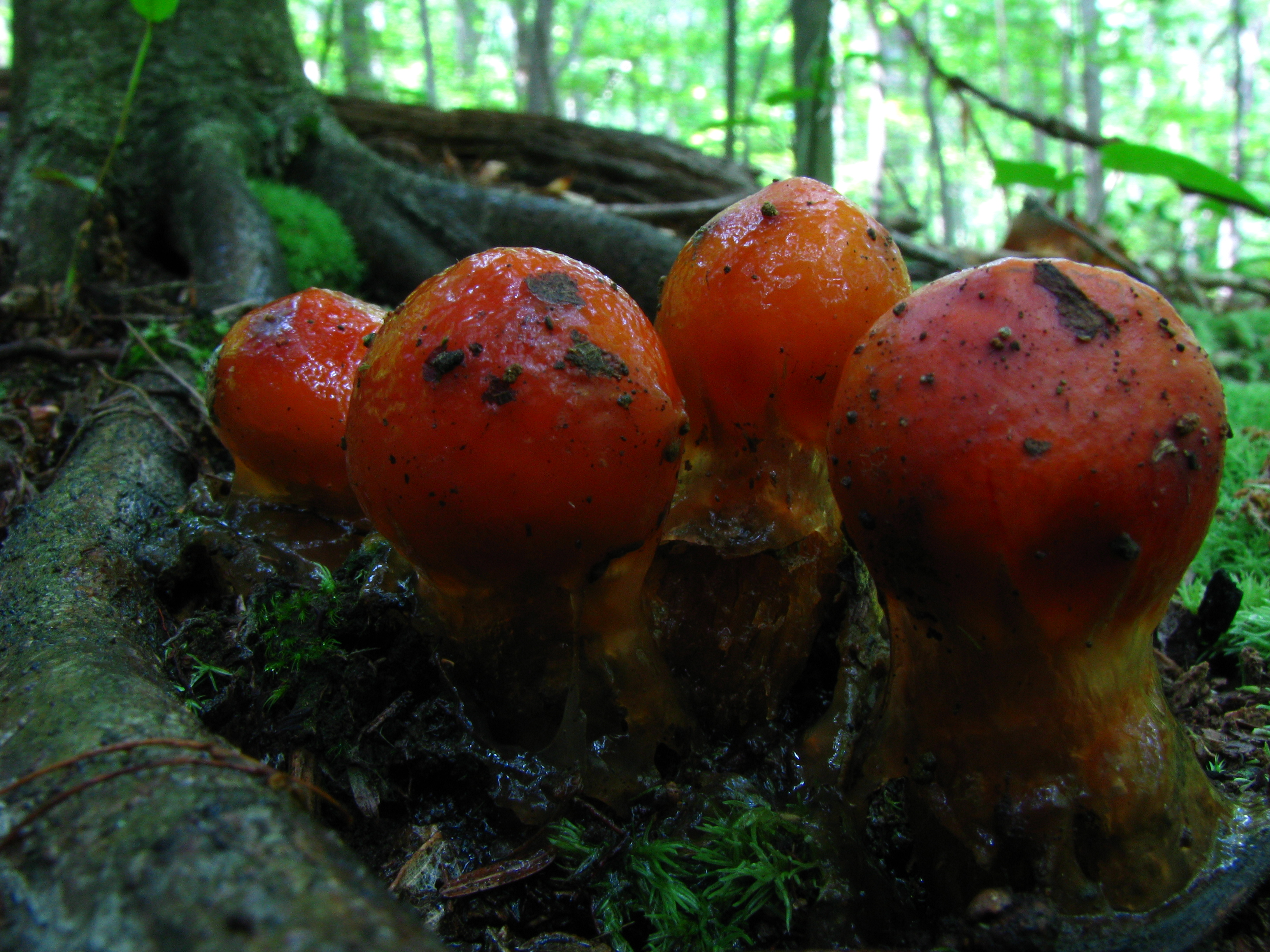 The mushroom Calostoma cinnabarina (Family Sclerodermataceae)